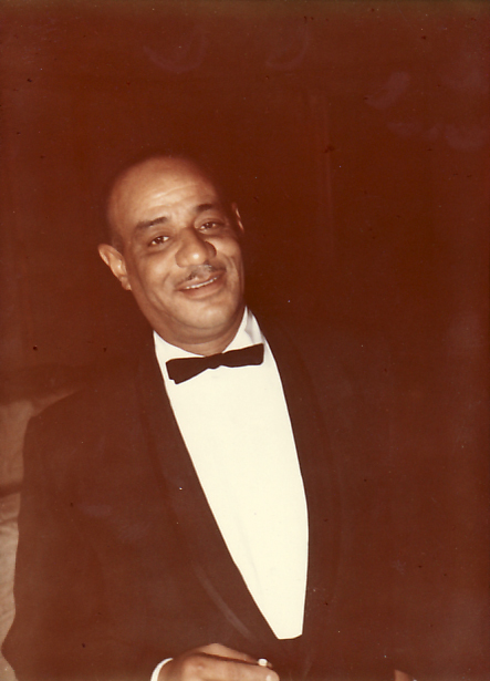 Donald Mills of Mills Brothers, 1966